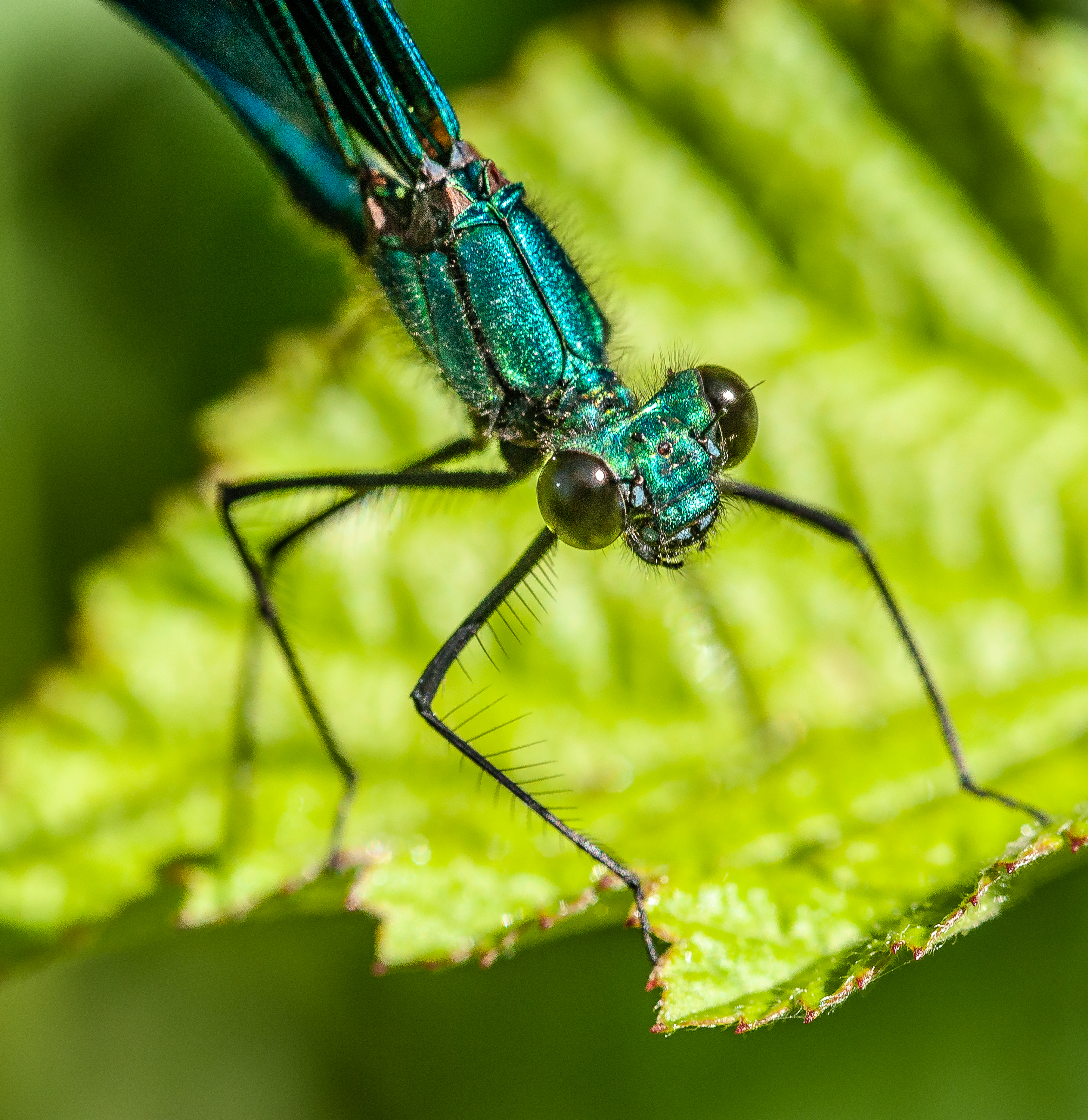 Calopteryx virgo, m, Körsch valley near Stuttgart, Germany